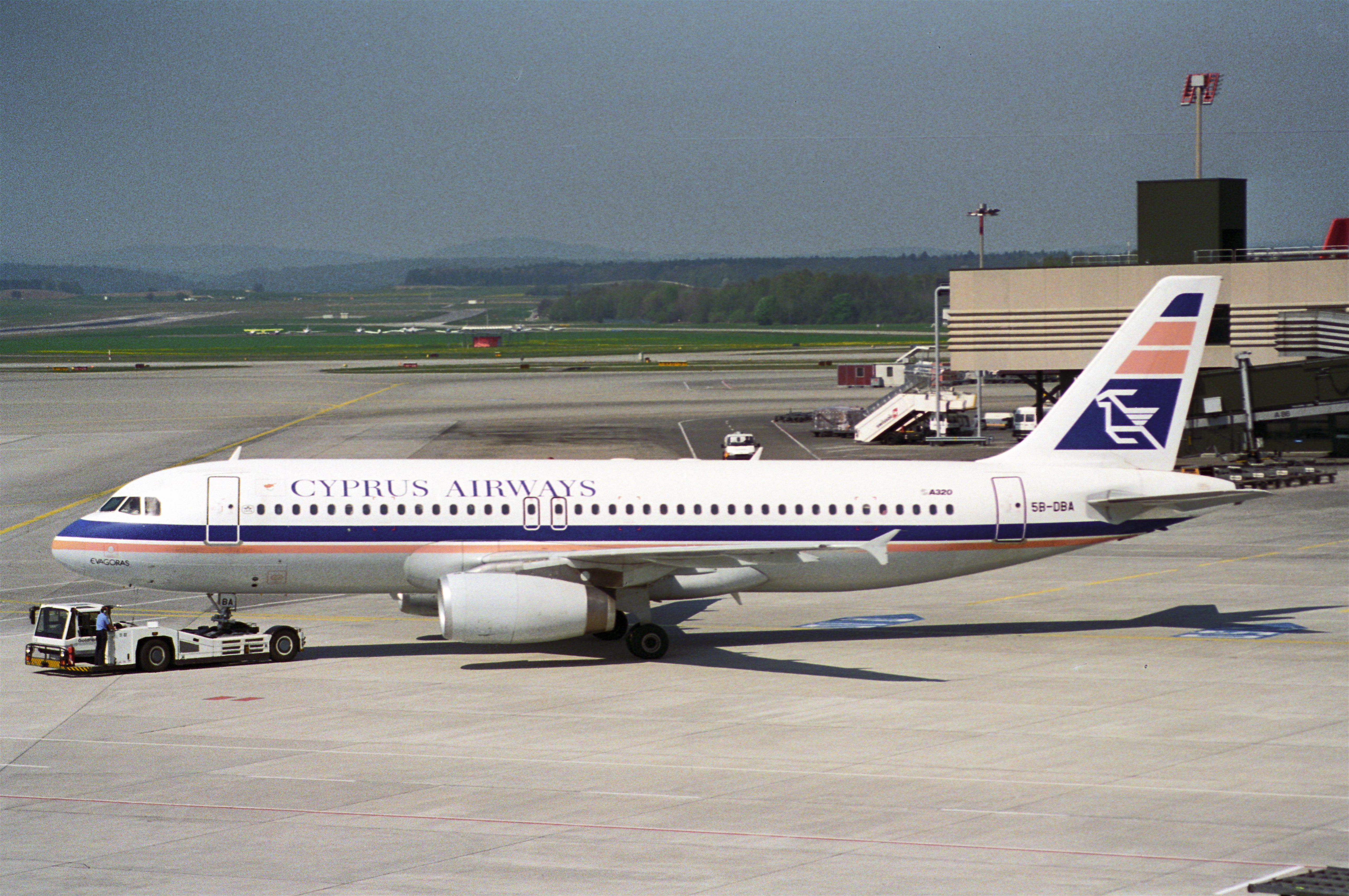 First flight: February 21, 1992...(c/n 180) 17/03/1992 Cyprus Airways 5B-DBA named 'Evagoras' stored 02/2011, scrapped 07/2011